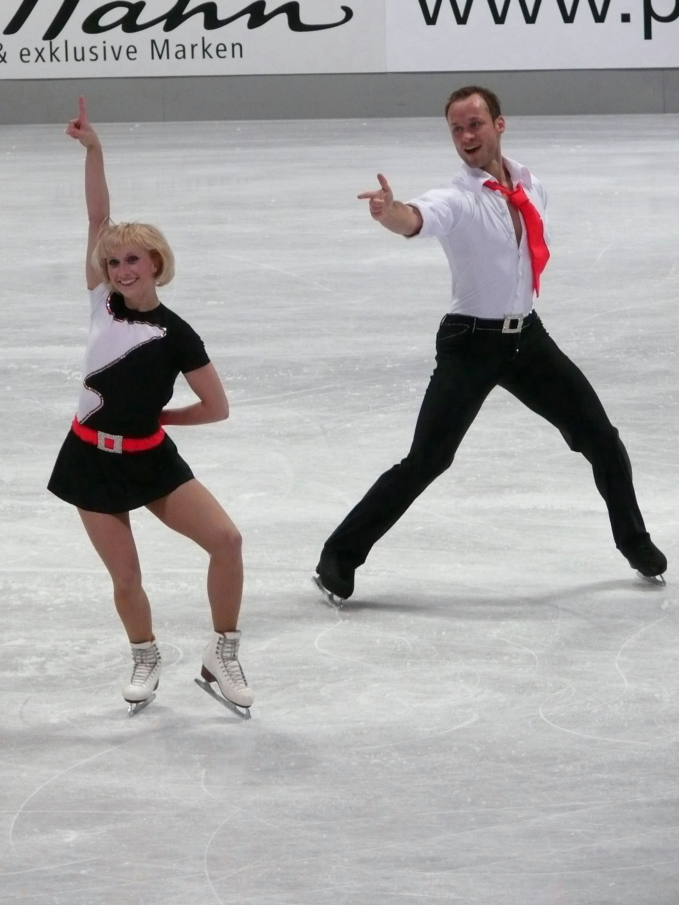 Maylin Hausch and Daniel Wende (GER) at their short program at the German Figure Skating Championships 2009 in Oberstdorf